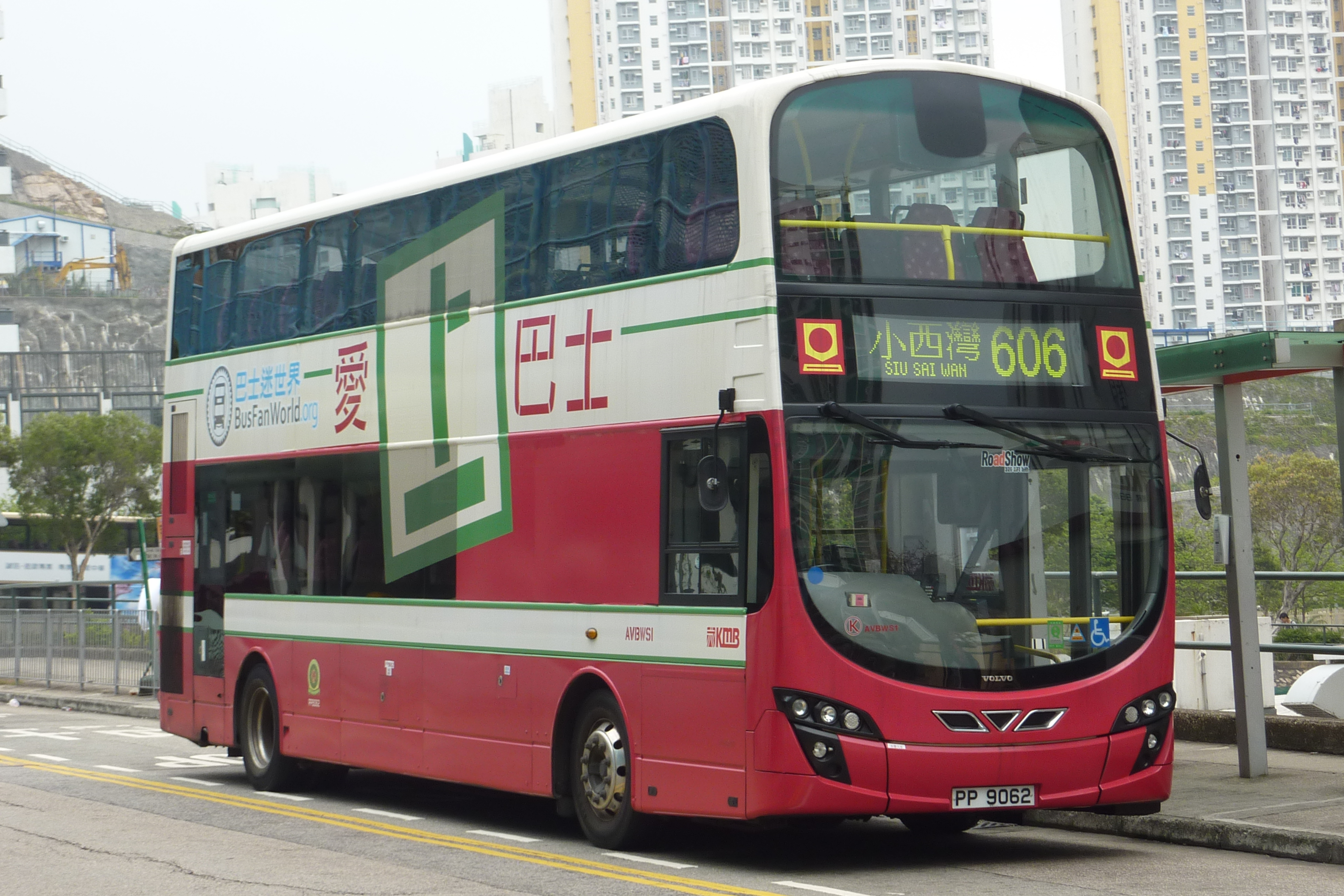 Cross Harbour Tunnel Route no. 606. Wright Eclipse Gemini 2 bodied Volvo B9TL (AVBWS1, reg. PP 9062, 10.6m, built 2010) in Hong Kong, China.